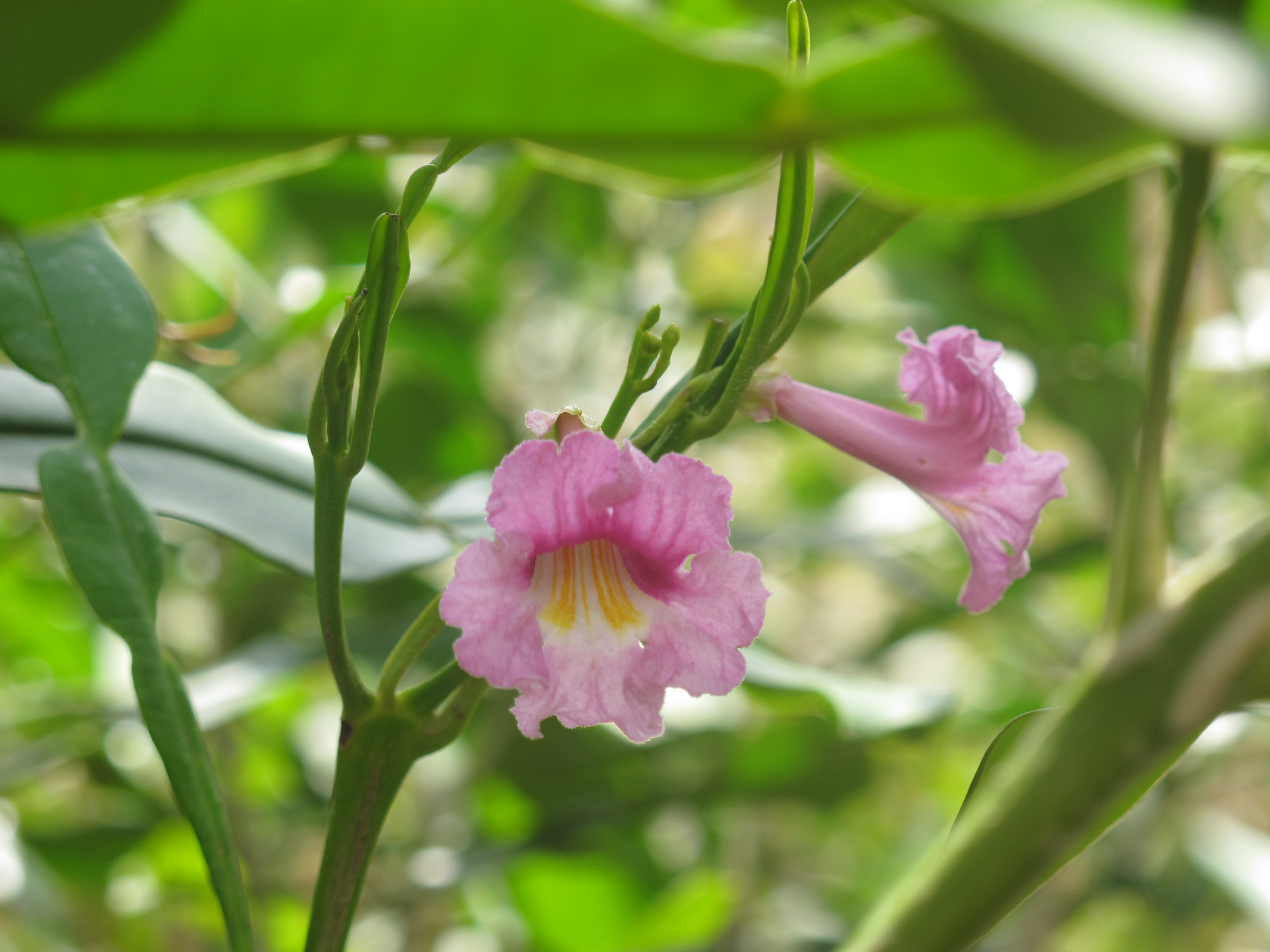 flowers of Phyllarthron bojeranum syn. P. madagascariensis